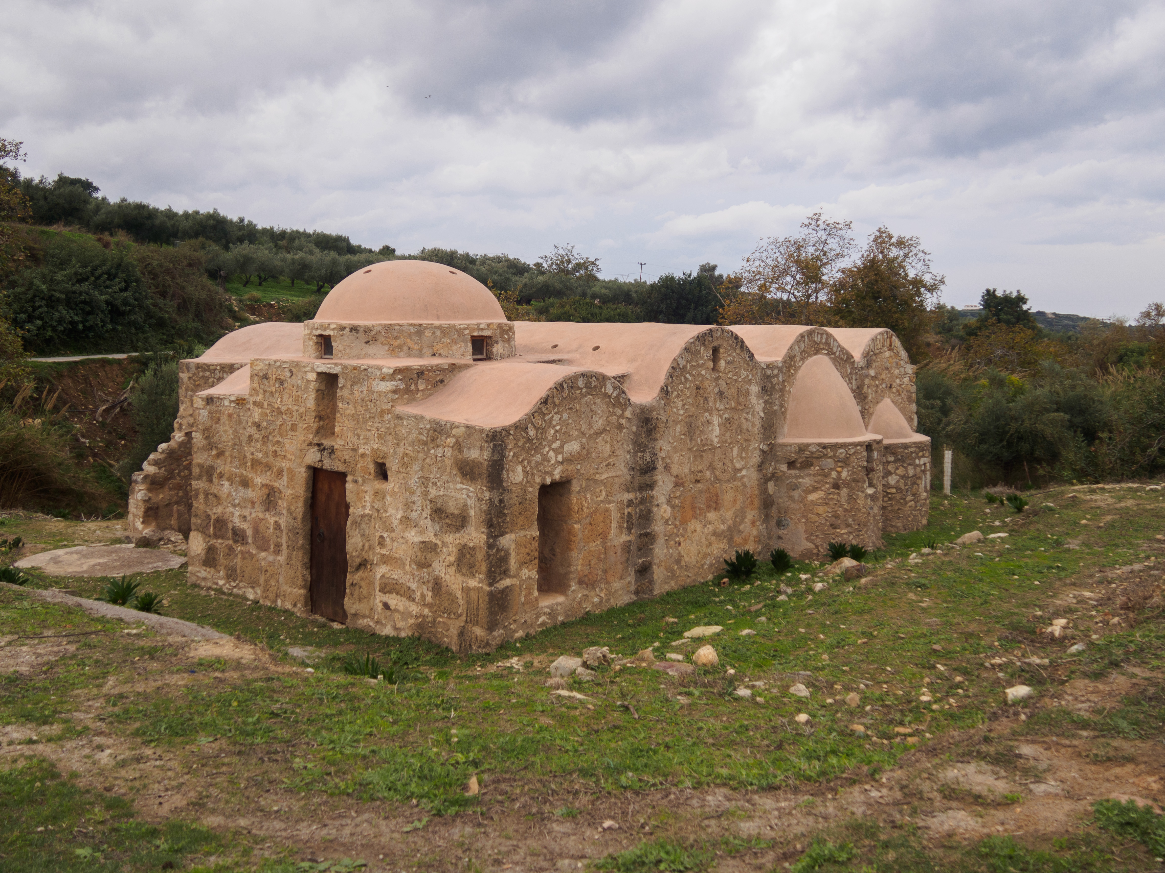 The church of Saint Demetrius near Viran Episkopi. It dates from at least the Venetian era and probably it was a bath house at byzantine times.